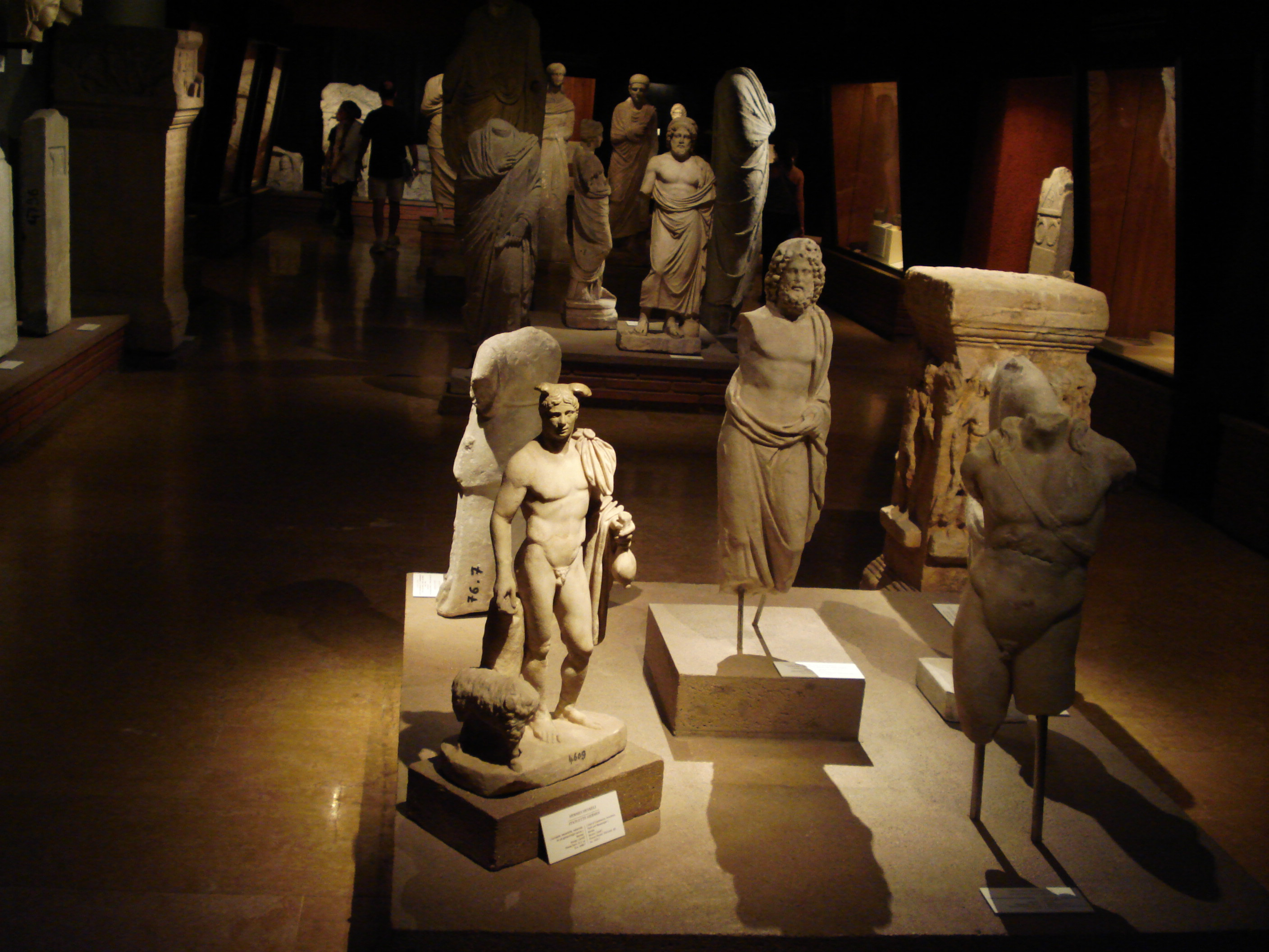 Image from Istanbul Archaeology Museum.